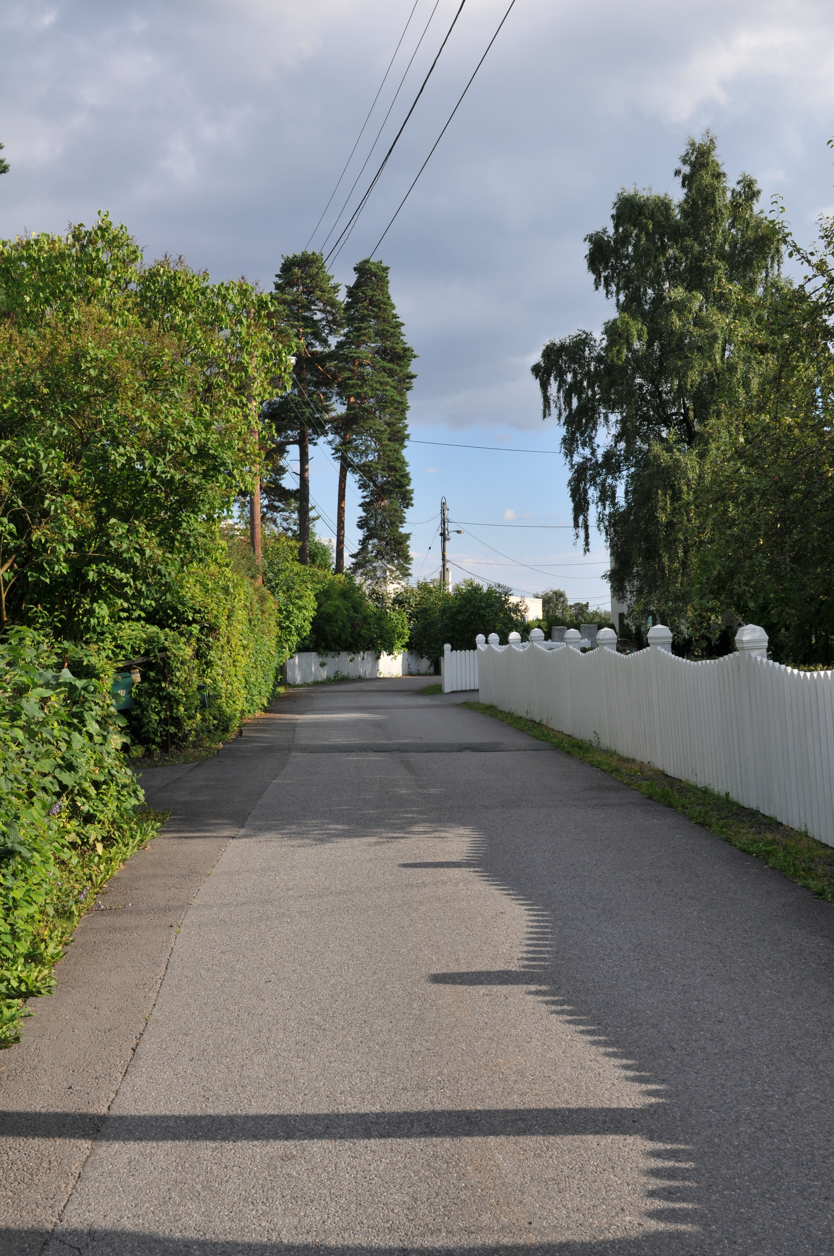 Bestumåsen from Bestumveien